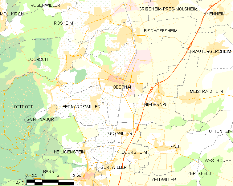 Map of French municipality